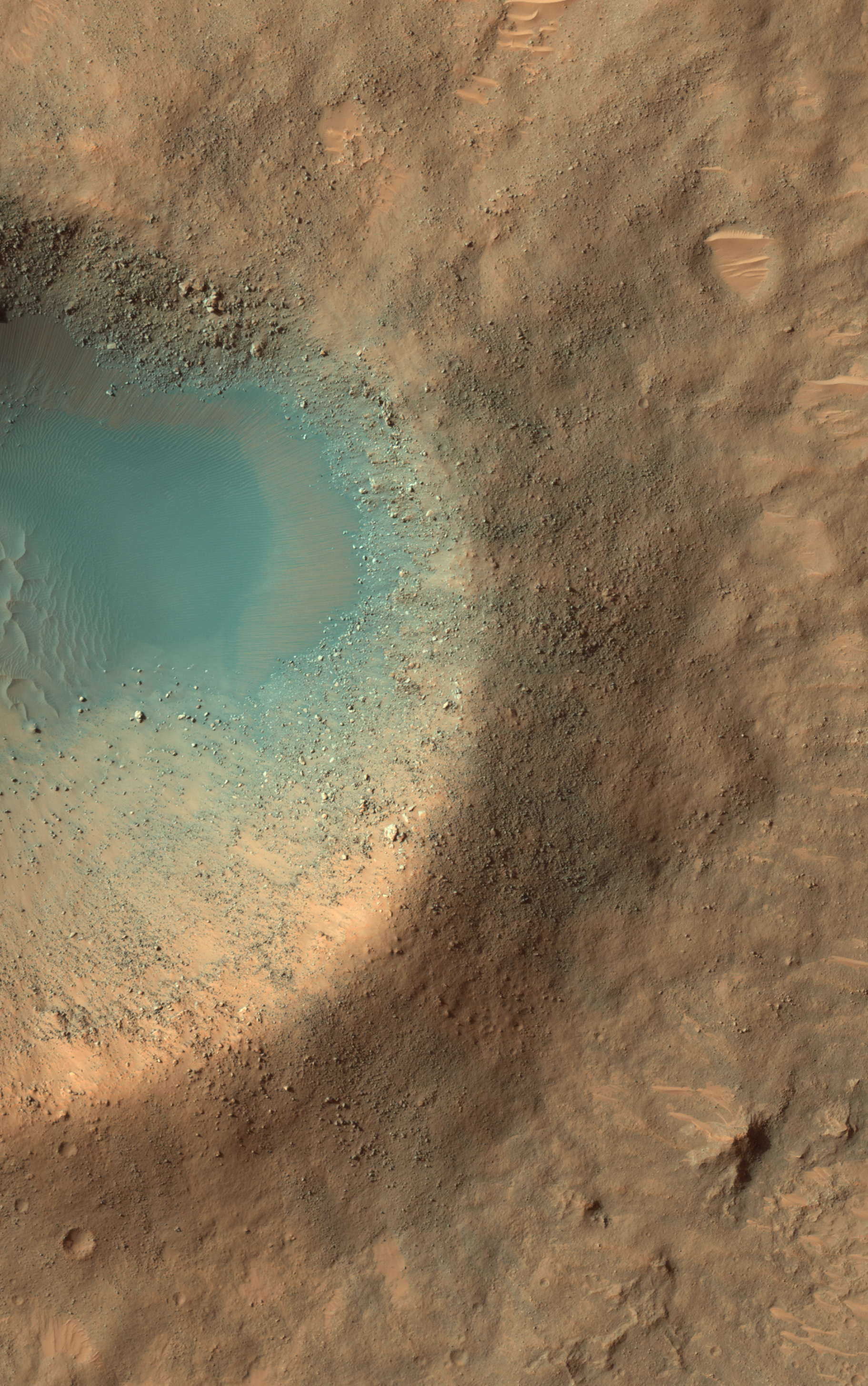 An impact crater in Hadley crater photogprahed by the HiRISE instrument aboard Mars Reconnaissance Orbiter. This crater is itself located within an impact crater inside Hadley.